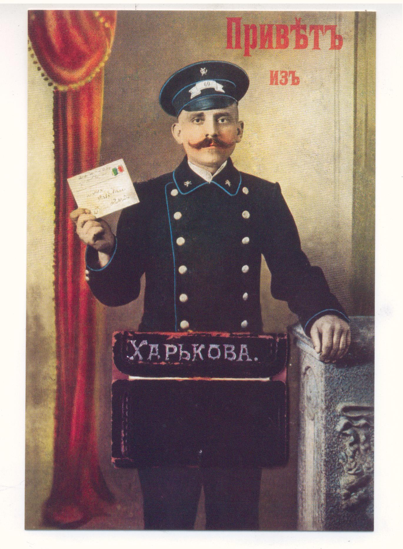 Russian Empire postman. The text on the postcard says: "Greetings from Kharkov!" ("Privet iz Kharkova!"). Russian Empire postcard, Kharkov.